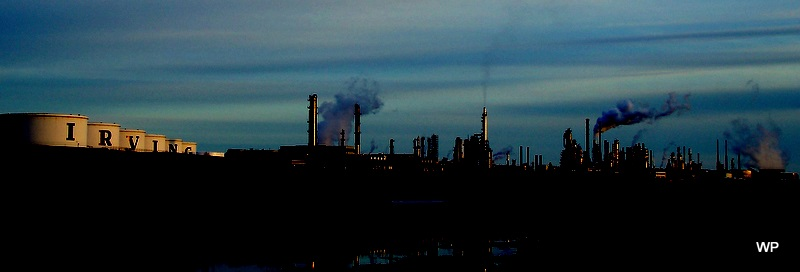 This is a panorama of the big Irving refinery just north of Saint John taken at sunset April 1, 2011. In fairness to Irving, the pond in the foreground has wildlife living in it, making the plant clean in comparison to plants seen elsewhere.